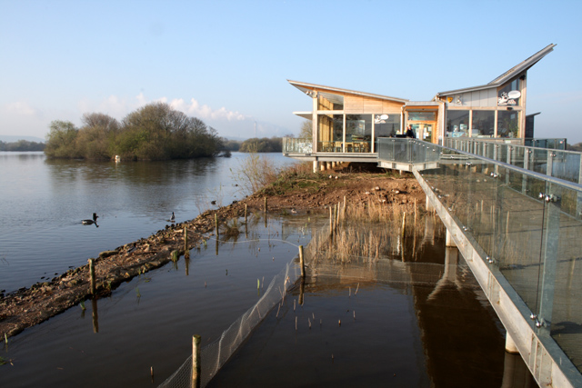 Attenborough Nature Reserve Visitor Centre. This building is worth another picture I think. It was opened in 2005 by the reserve's namesake David - see the links on 202833.